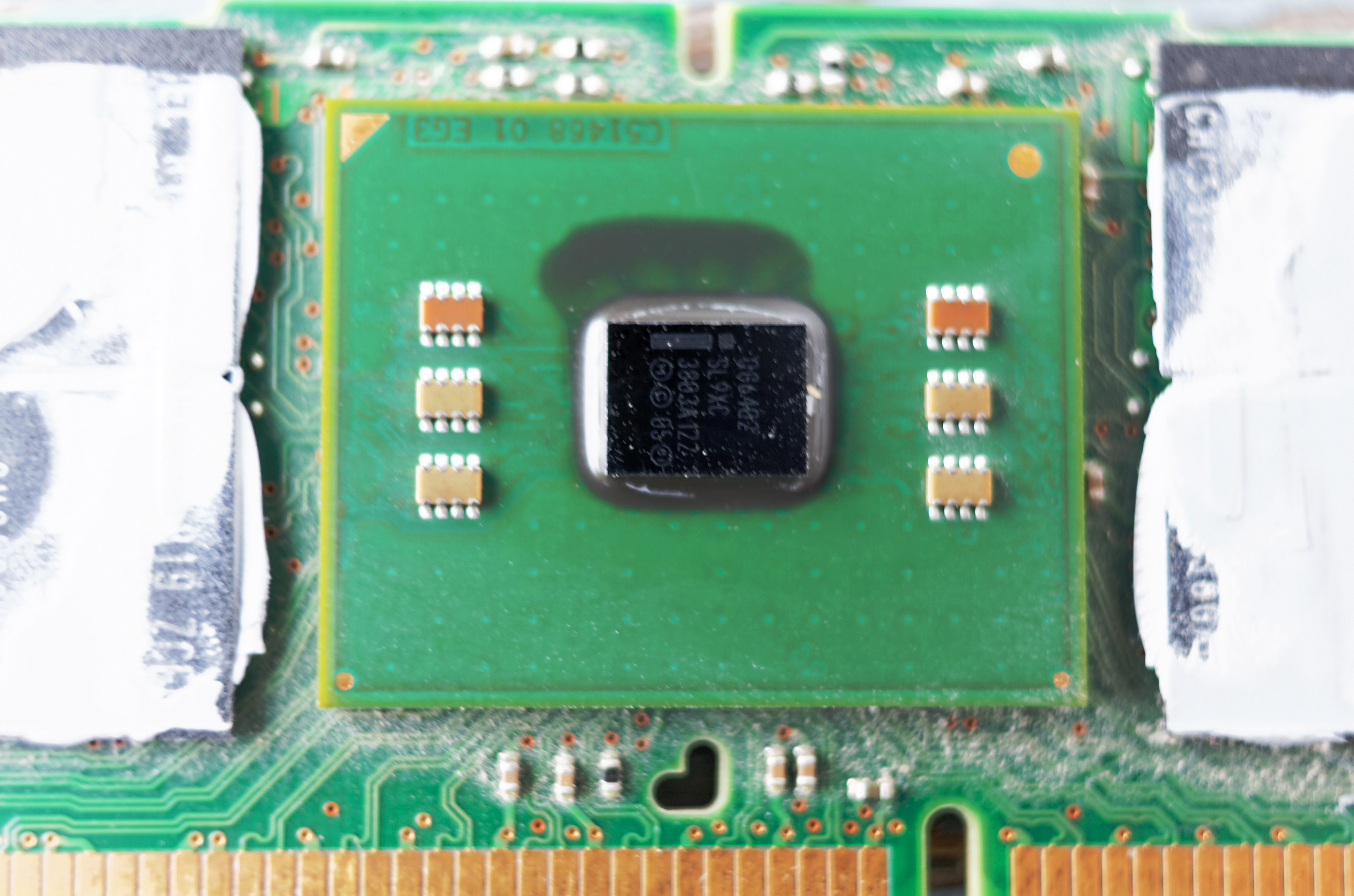 Intel ® 6402 Advanced Memory Buffer. From a Stick of DDR2 Buffered ECC Server RAM manufactured by Samung